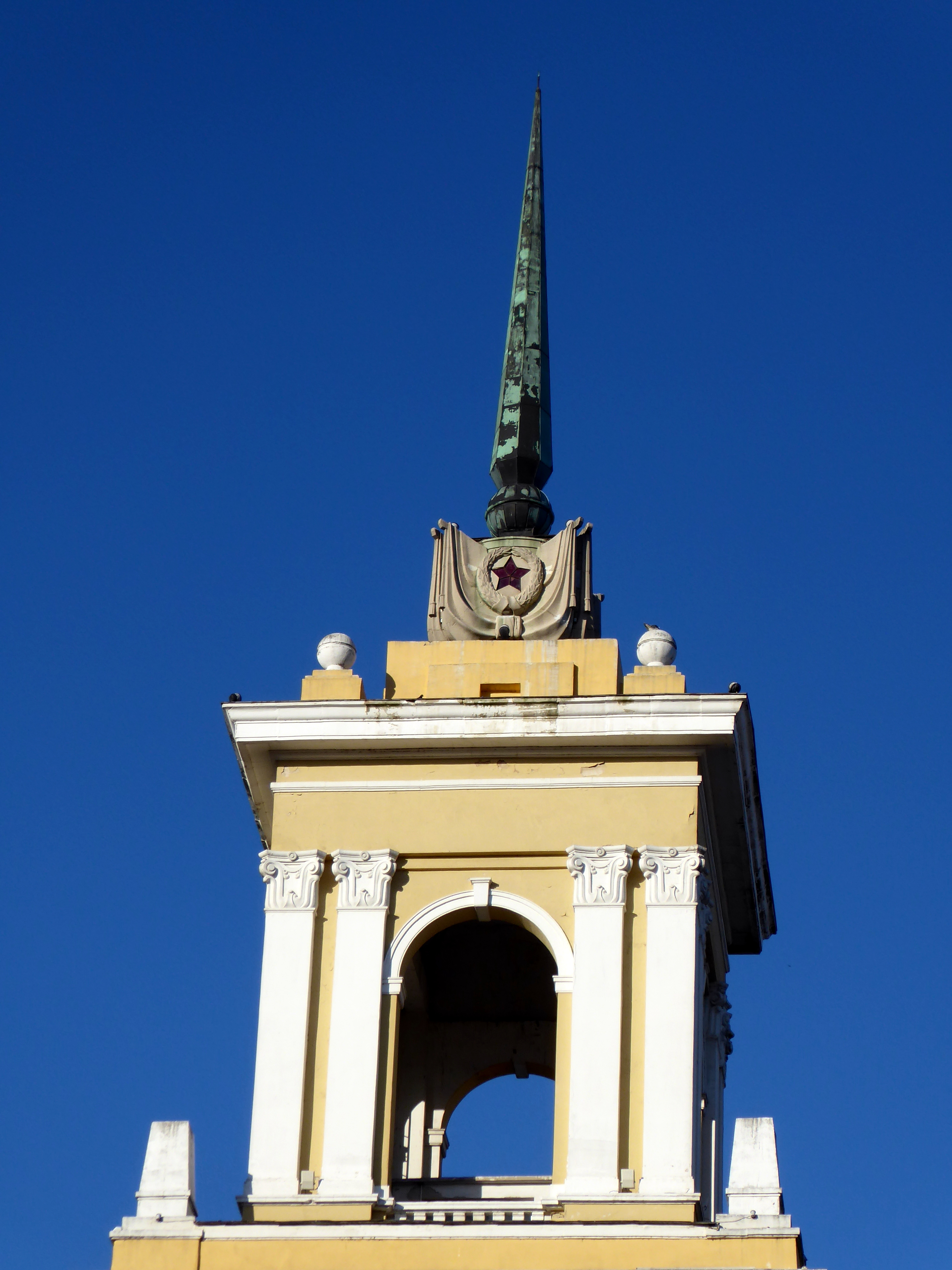 Naval Academy "Nikola Jonkov Vaptsarov" VVMU Varna.